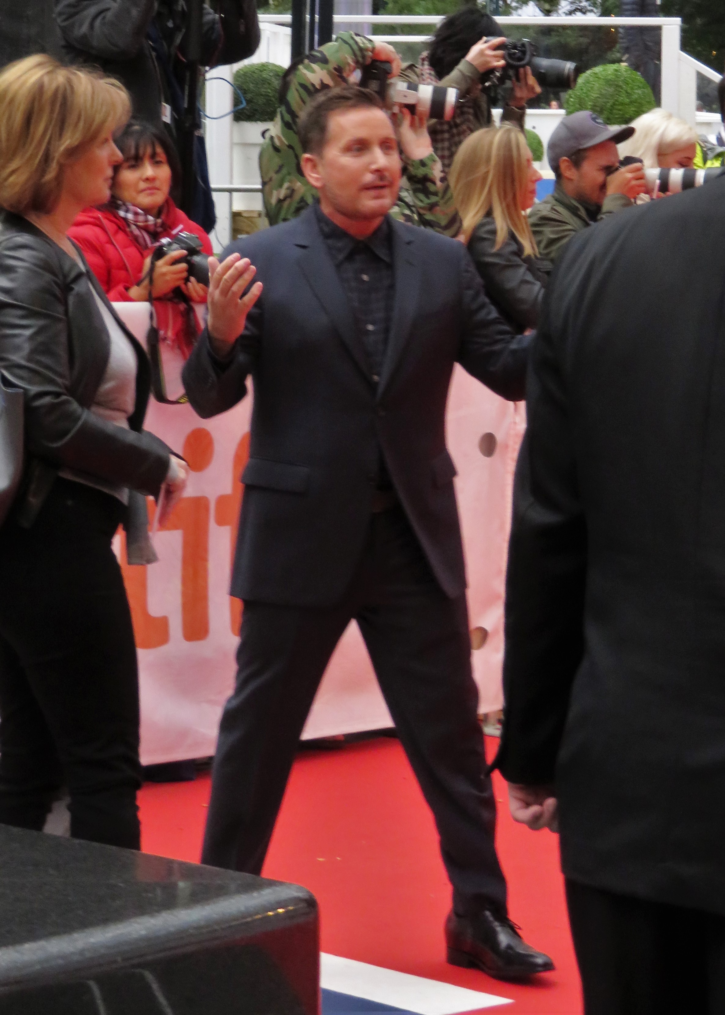 Emilio Estevez at the premiere of The Public, 2018 Toronto Film Festival